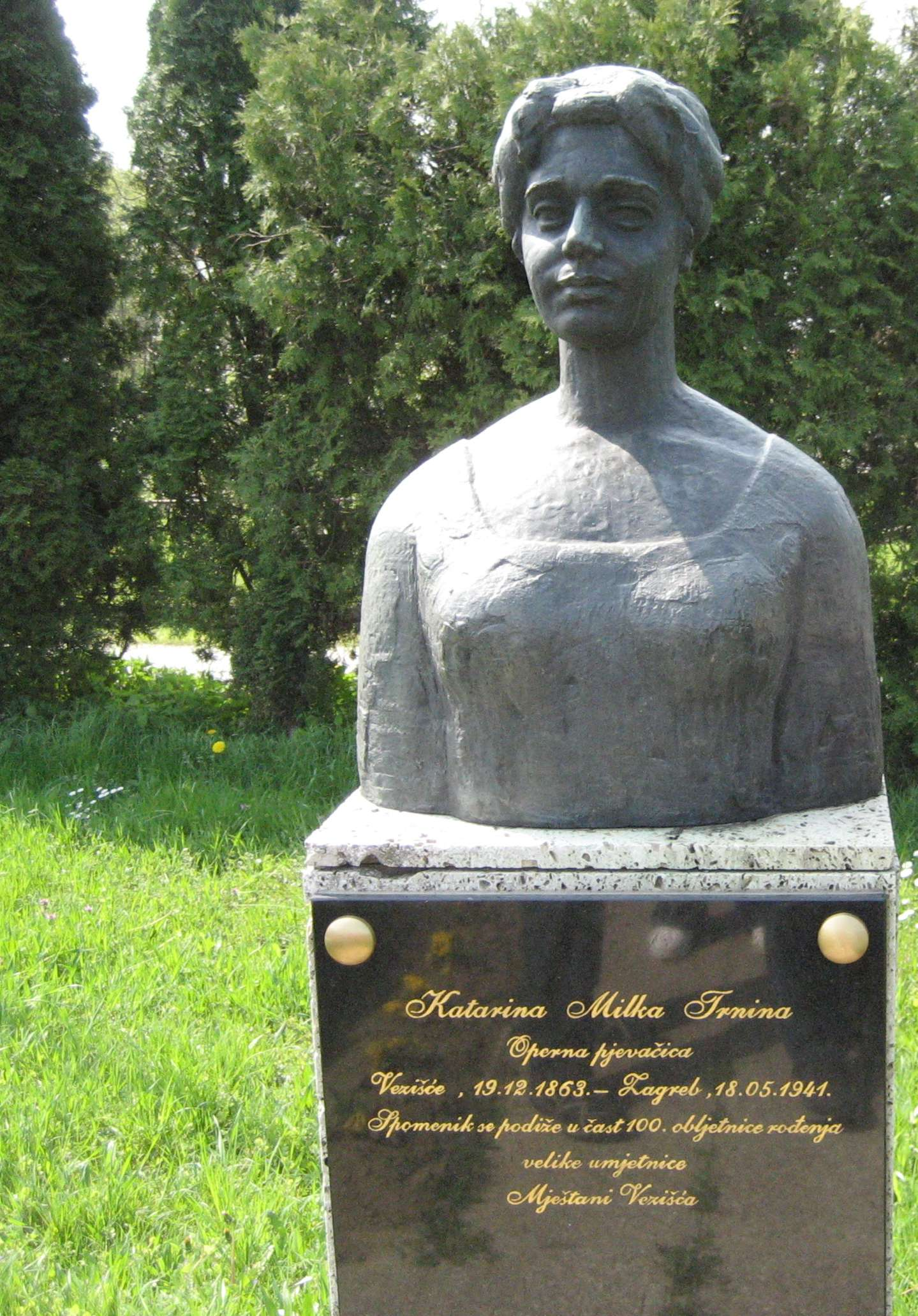 Milka Trnina, Vezisce